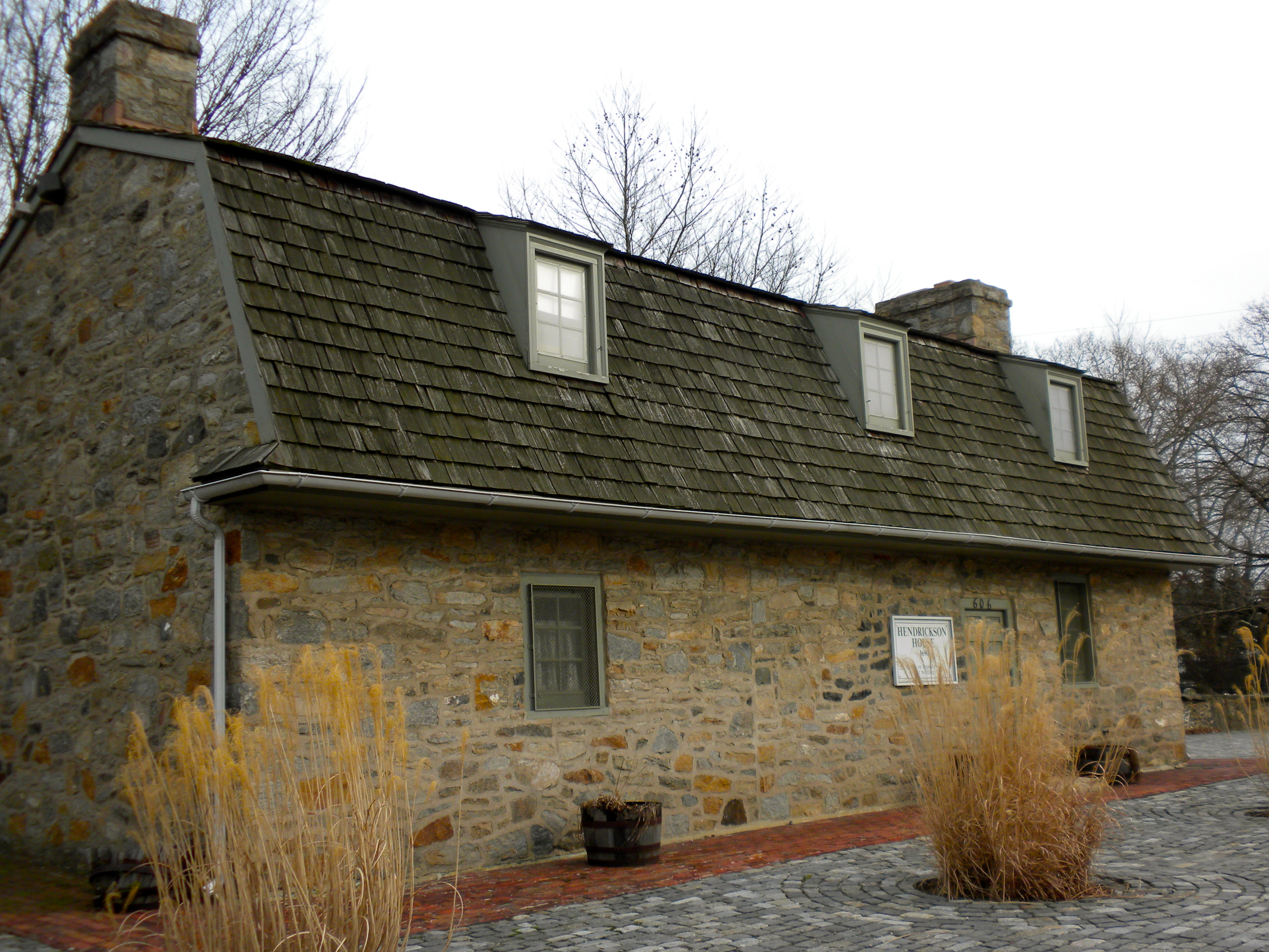 Hendrickson House, originally built in 1690 in Chester, Pennsylvania. Moved to Wilmington, Delaware, where it sits next to Old Swede's Church, on the NRHP.